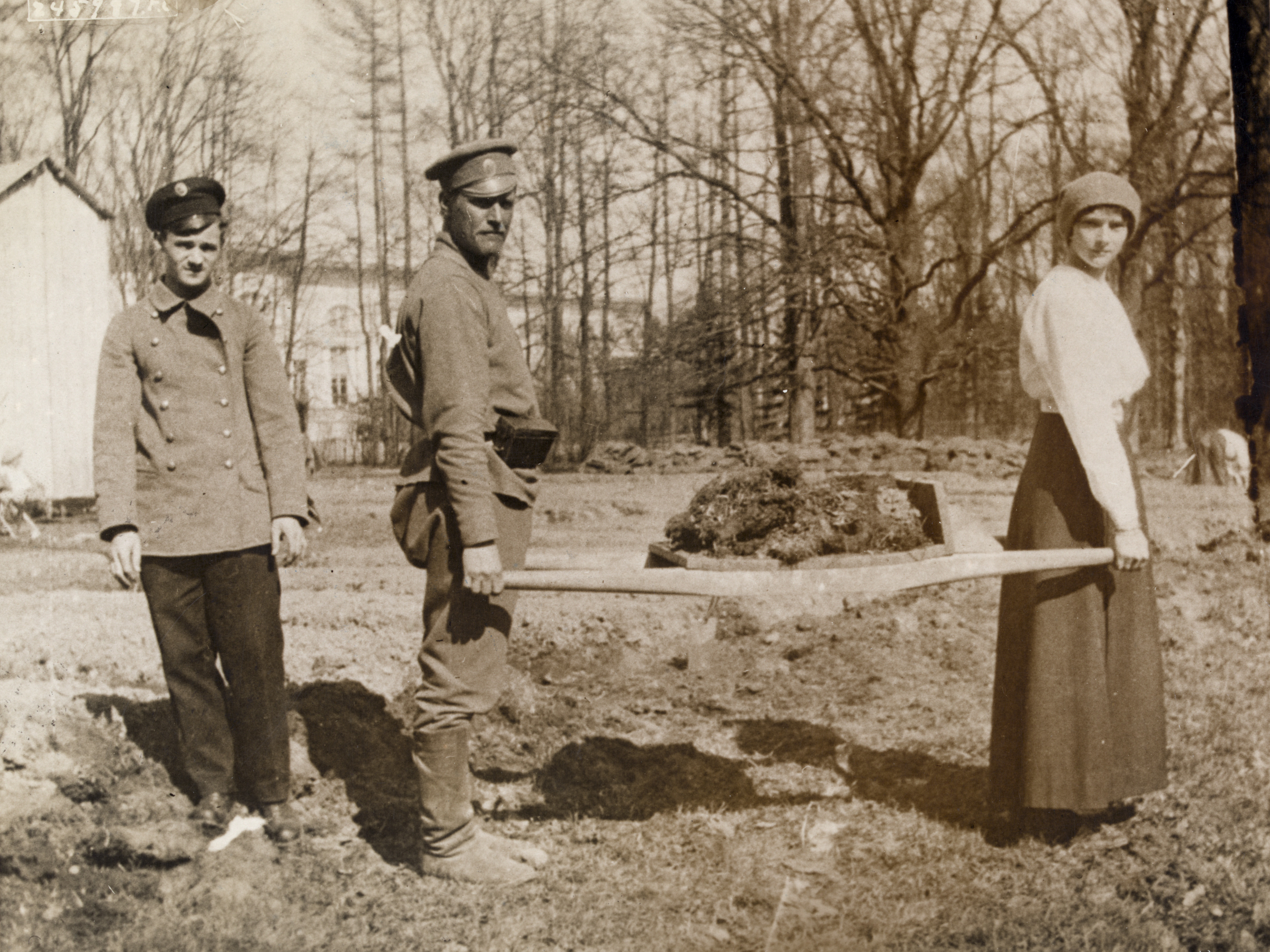 Grand Duchess Tatiana, daughter of the Czar, transporting with the aid of a soldier, lumps of sod on a stretcher. Photo made at Tsarskoe-Selo Photograph shows the Grand Duchess Tatiana working outside Alexander Palace, during internment at Tsarskoe-Selo, 1917. Accompanying caption describes the last days of the Romanovs.